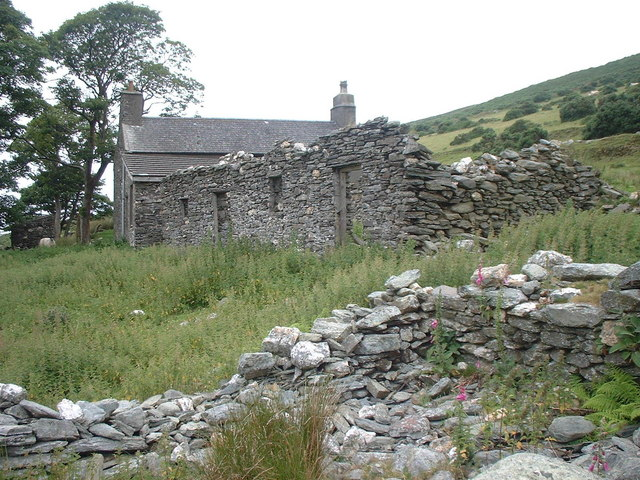 Tholtan at Cronk Doo